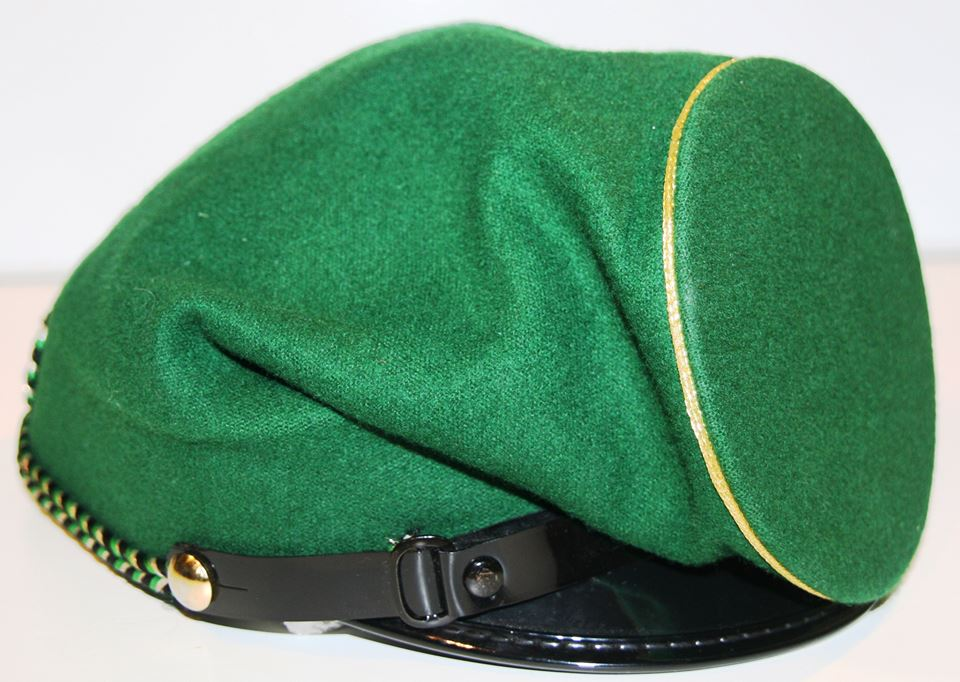 Corps Hubertia Freiburg Stürmer, one of the two contemporary fraternity hats worn by this Studentenverbindung